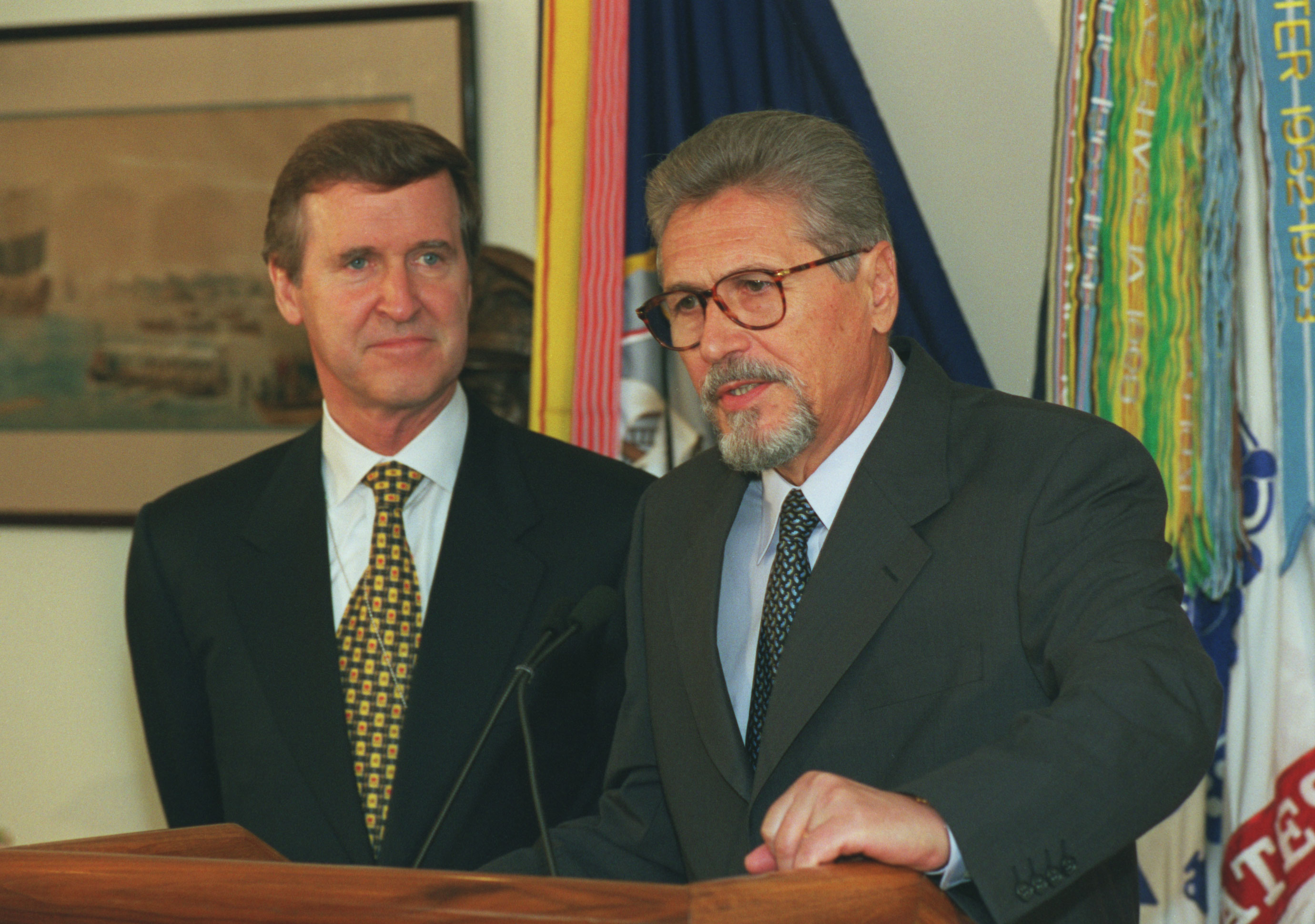 Secretary of Defense William Cohen (left) looks on as his guest, Romanian President Emil Constantinescu (right), makes a statement at the start of a joint press conference at the Pentagon, July 17, 1998.